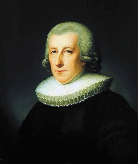 Potrait of the Hamburg pastor Bernhard Klefeker (1760-1825)